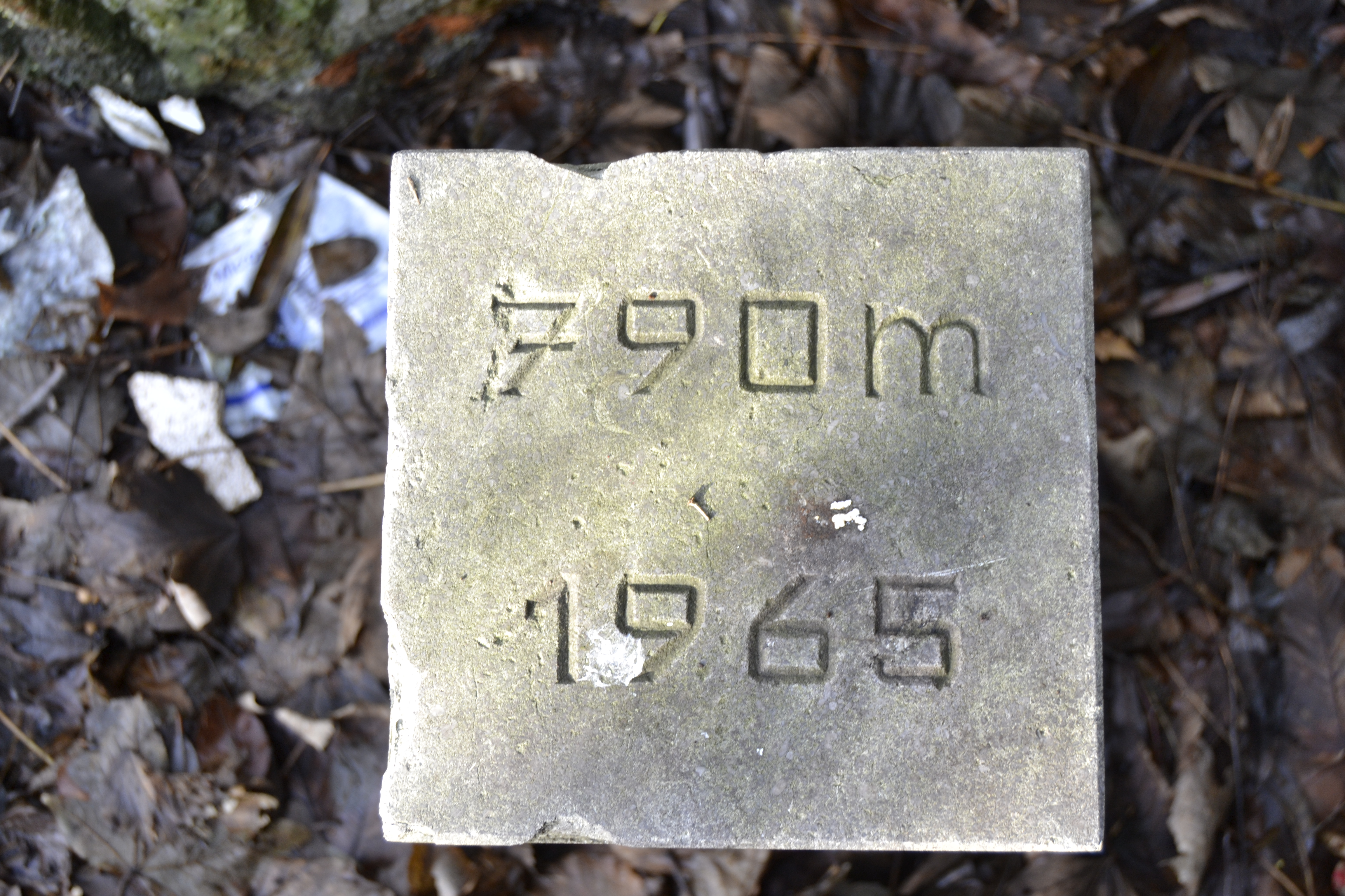 Ancient pit of the Sainte-Marguerite coal mine in Liège, Belgium; above the Fontainebleau crossroad